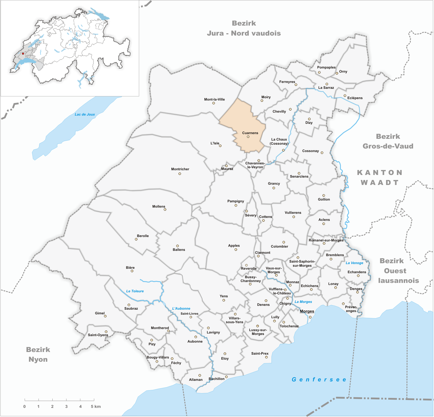 Municipality Cuarnens